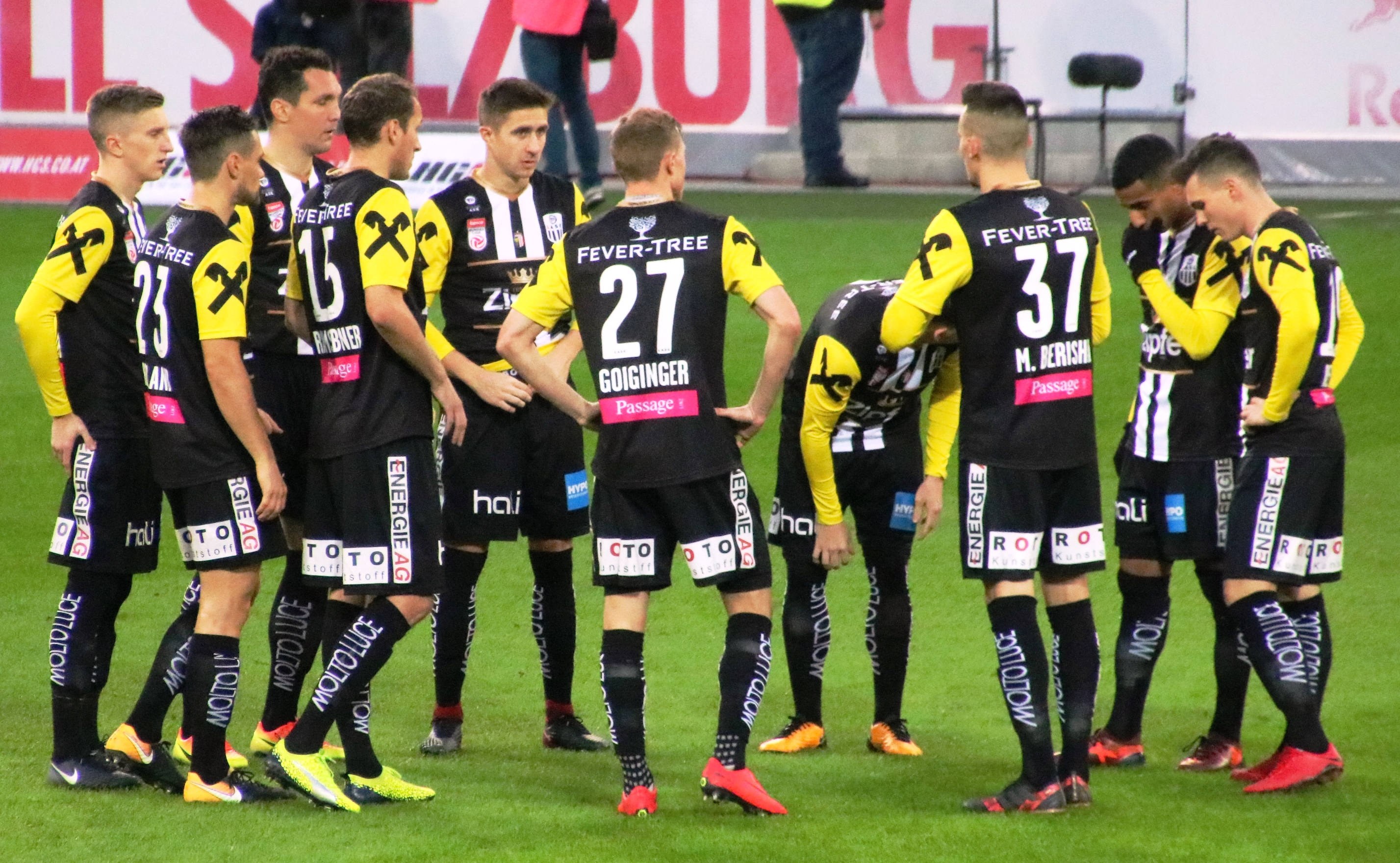 Austria Bundesliga League match